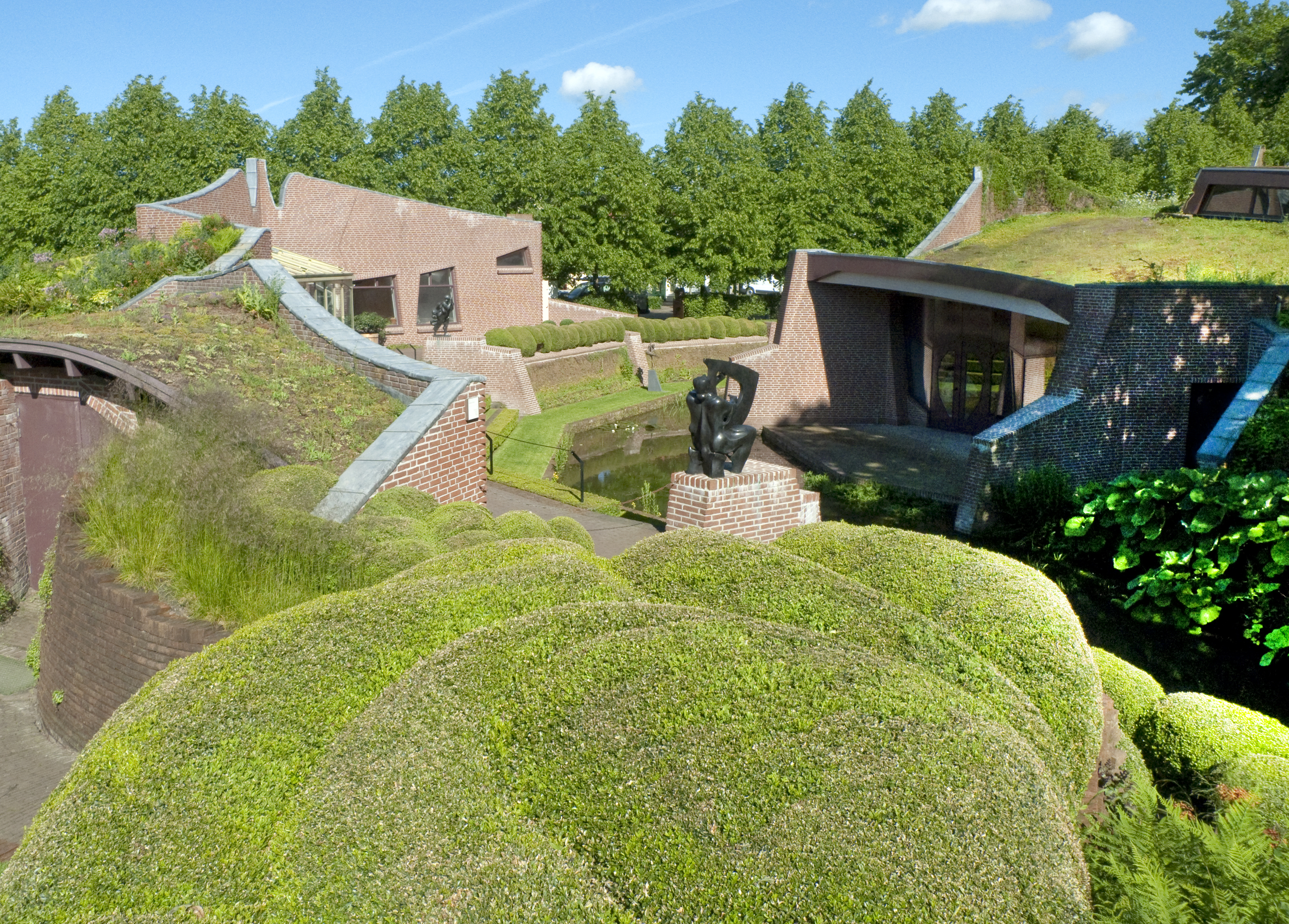 Museum De Buitenplaats - overzicht gebouw